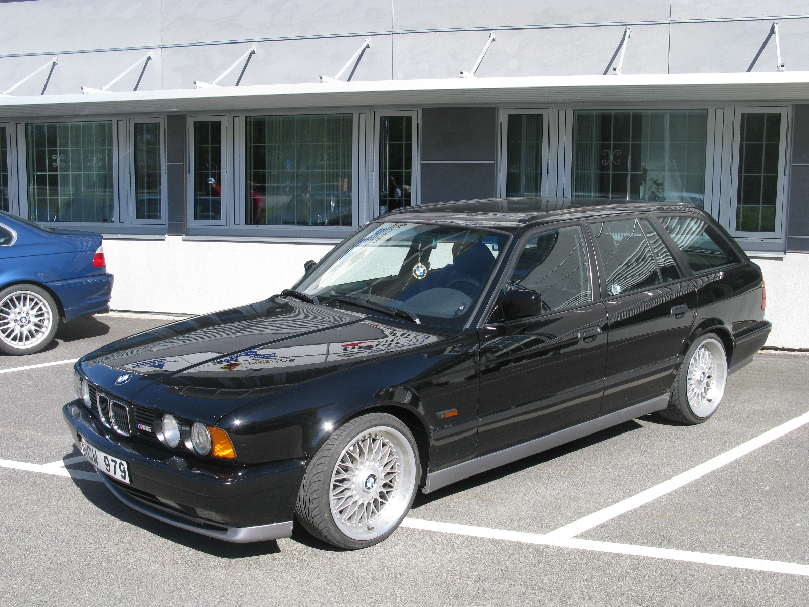 BMW M5 Touring E34